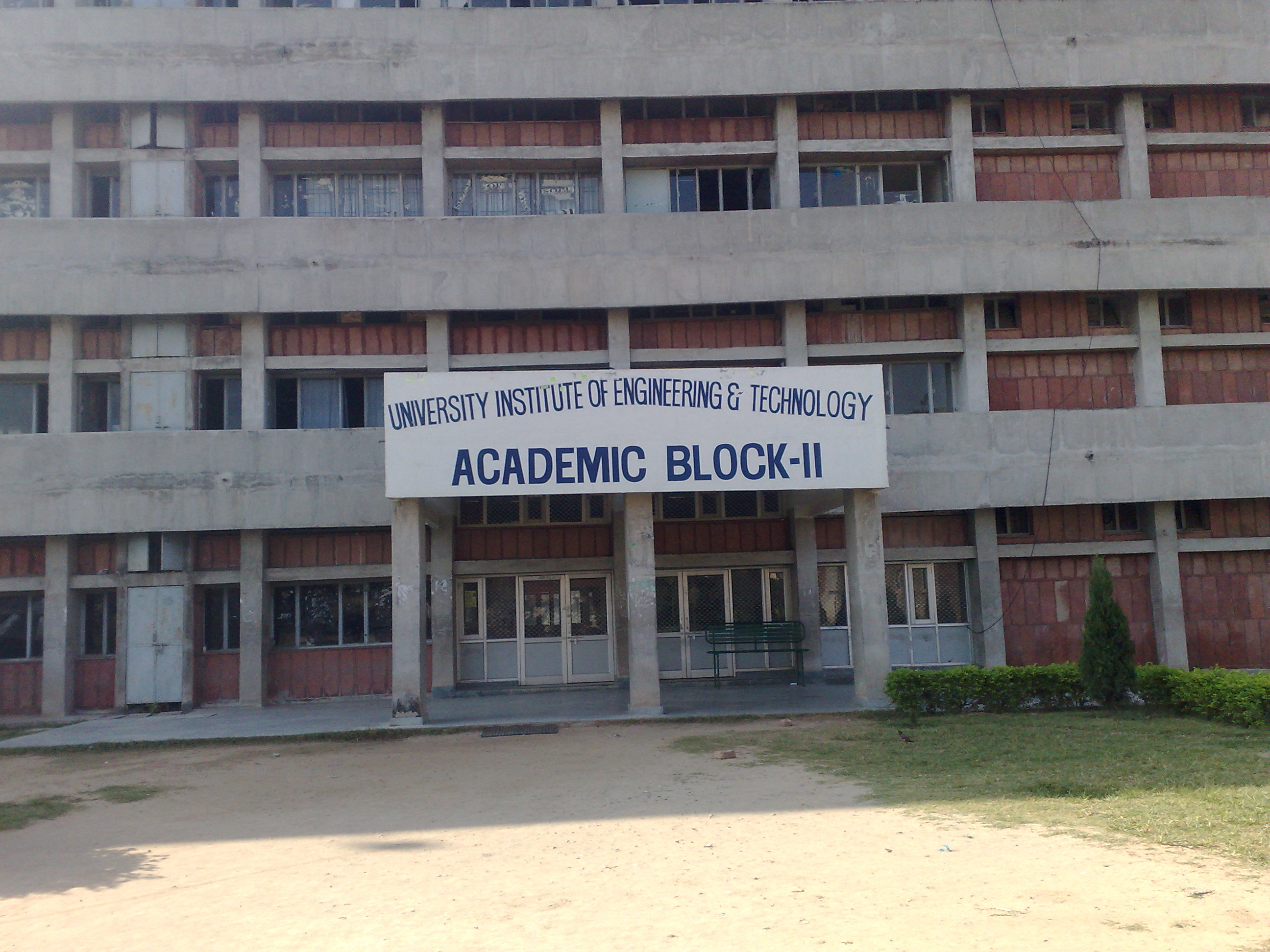 New Block Of UIET PU Chandigarh